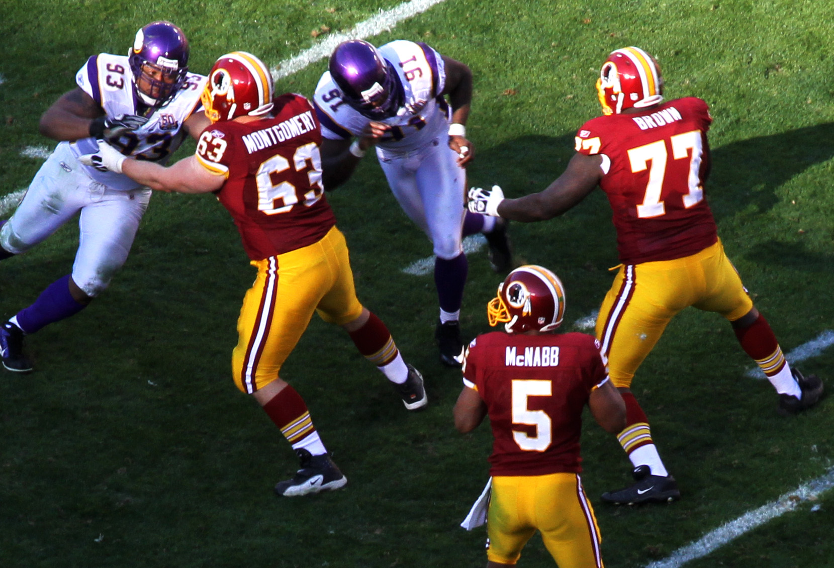 Minnesota Vikings DT Kevin Williams versus Washington Redskins OL